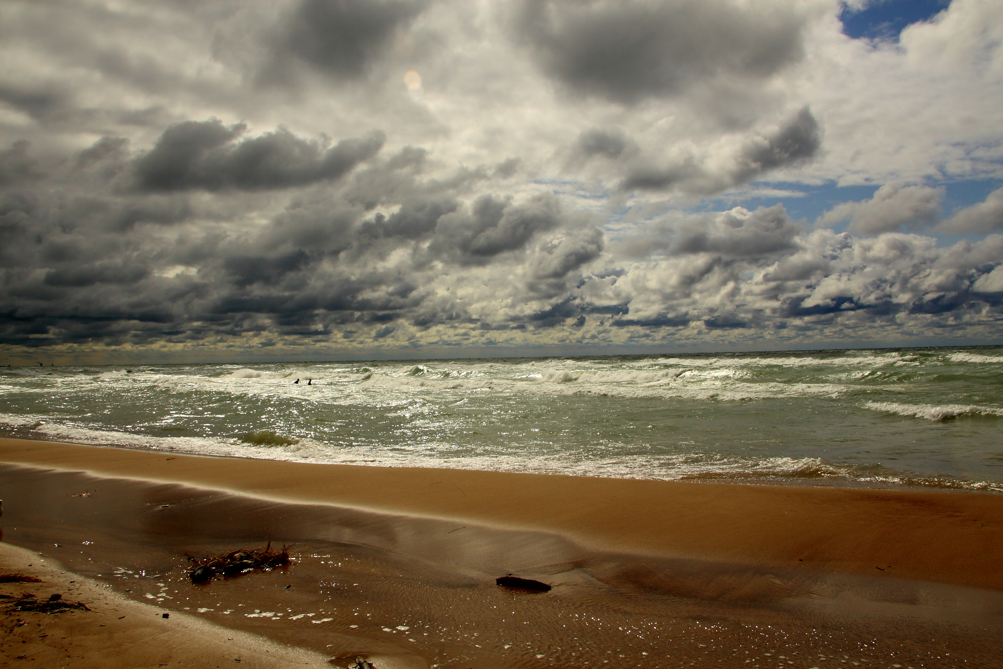 Lake Michigan and the beach, Harbert, Chikaming Twp. Michigan (near Three Oaks)